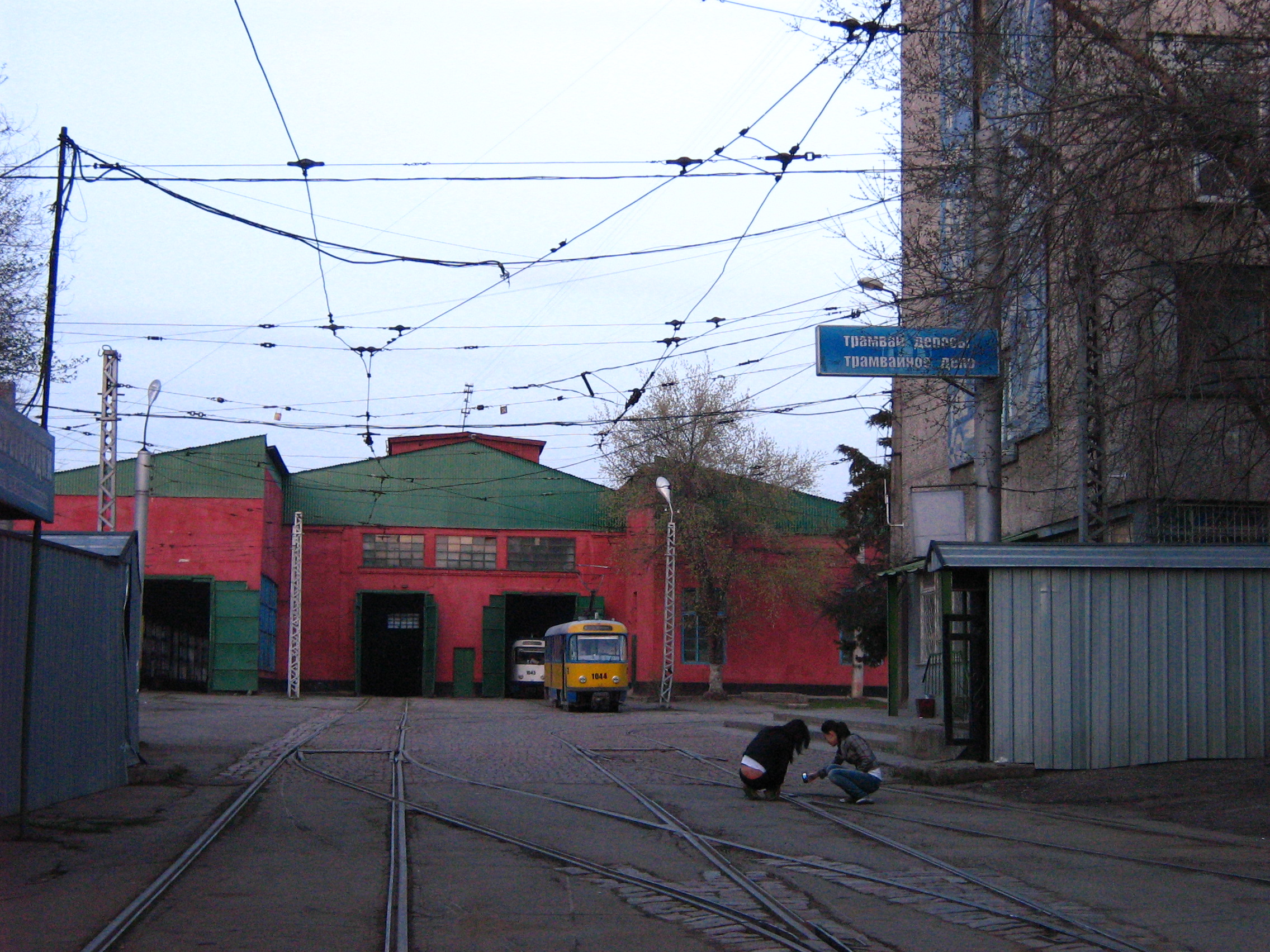 Almaty tramway central station